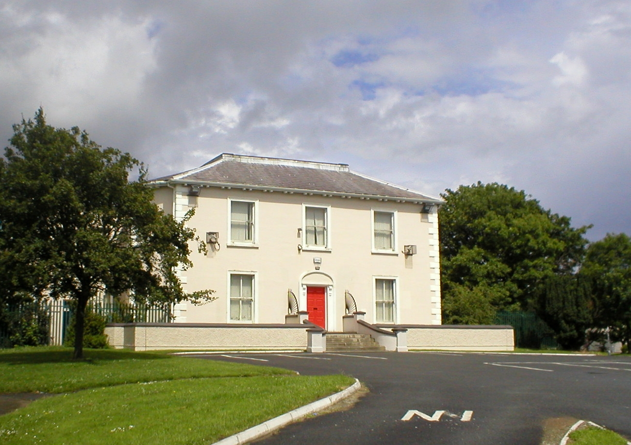 Shanganagh Park House (The big house), Shankill, Co. Dublin, Ireland